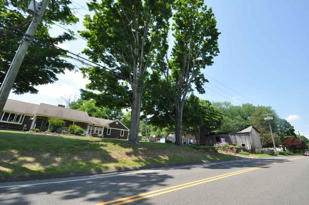 Location where the Valentine Wightman House once stood, in Southington, Connecticut.